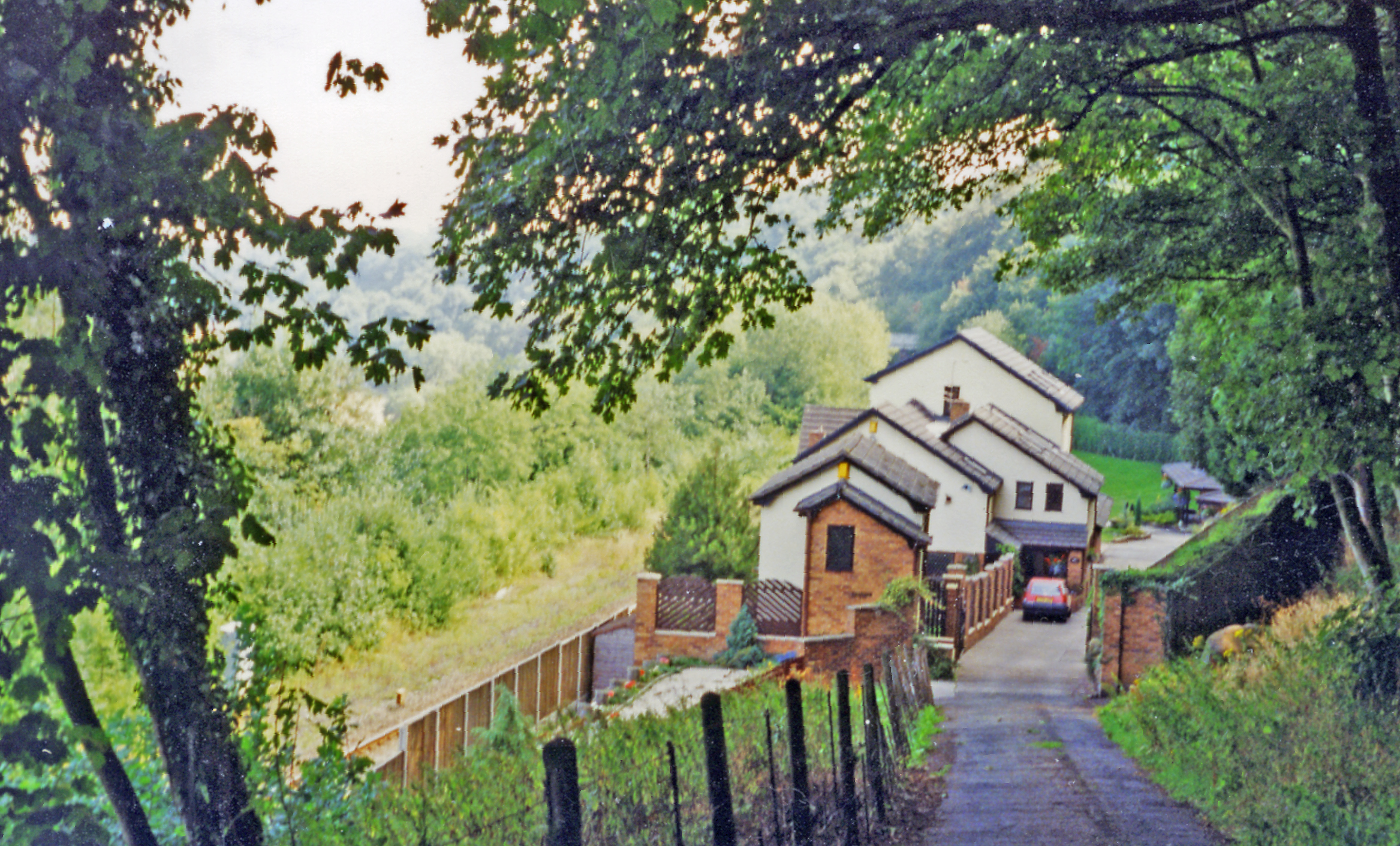 Site of Gresford (for Llay) station, 1995. View NE, towards Chester: ex-GWR Shrewsbury etc. - Chester - (Birkenhead) main line. It was down at the bottom here, just off the ... road, was an unstaffed 'Halt' from 2/5/55 and closed 10/9/62. The main line is of course still open.